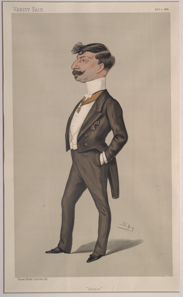 Men of the Day No.396: Caricature of HE The Greek Minister M John Gennadius [1]. Caption reads: "Greece"